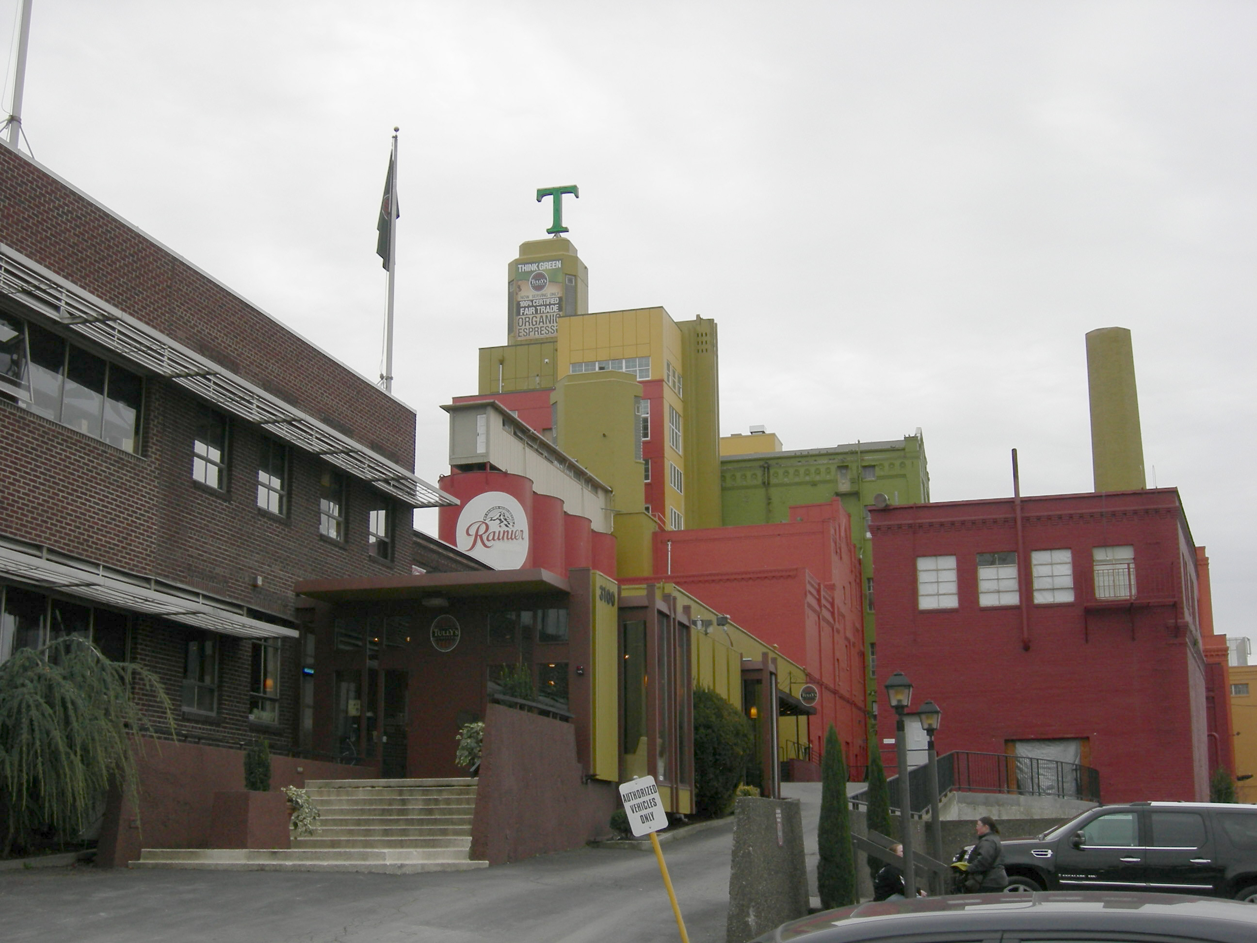 Rainier Brewery (now the headquarters of Tully's Coffee), Seattle, Washington, USA. Both an old Rainier sign on a tank and the Tully's "T" are visible in this photo.